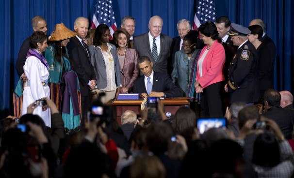 Congresswoman Pelosi proudly stands beside President Obama as he signs the reauthorization of the Violence Against Women Act.